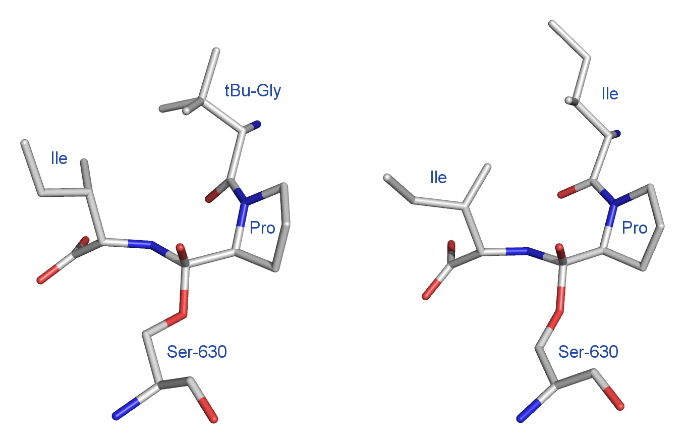 Structure detail of a tBu-GPI ligand (left, and a Diprotin A liganden (right, in dipeptidyl peptidase IV